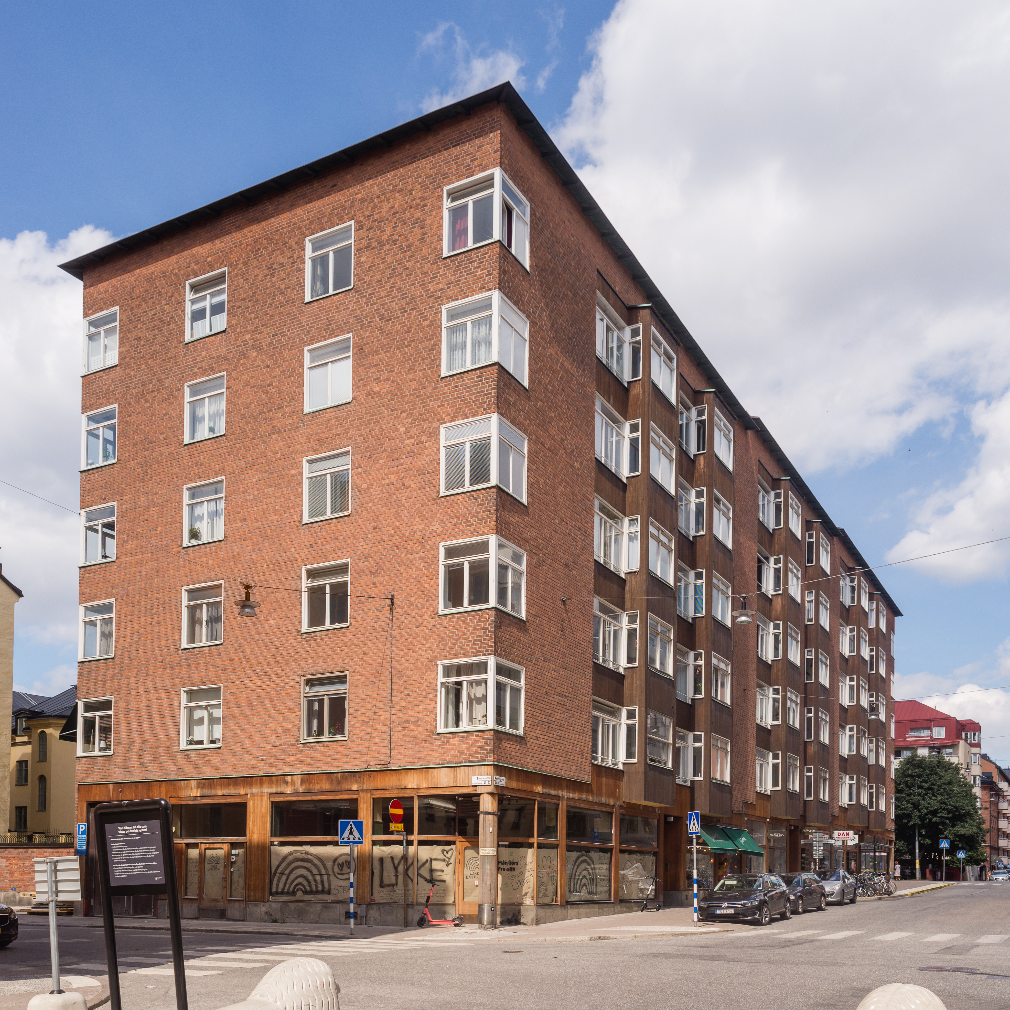 Tegelslagaren 12. Built 1936. Architects: Backström & Renius